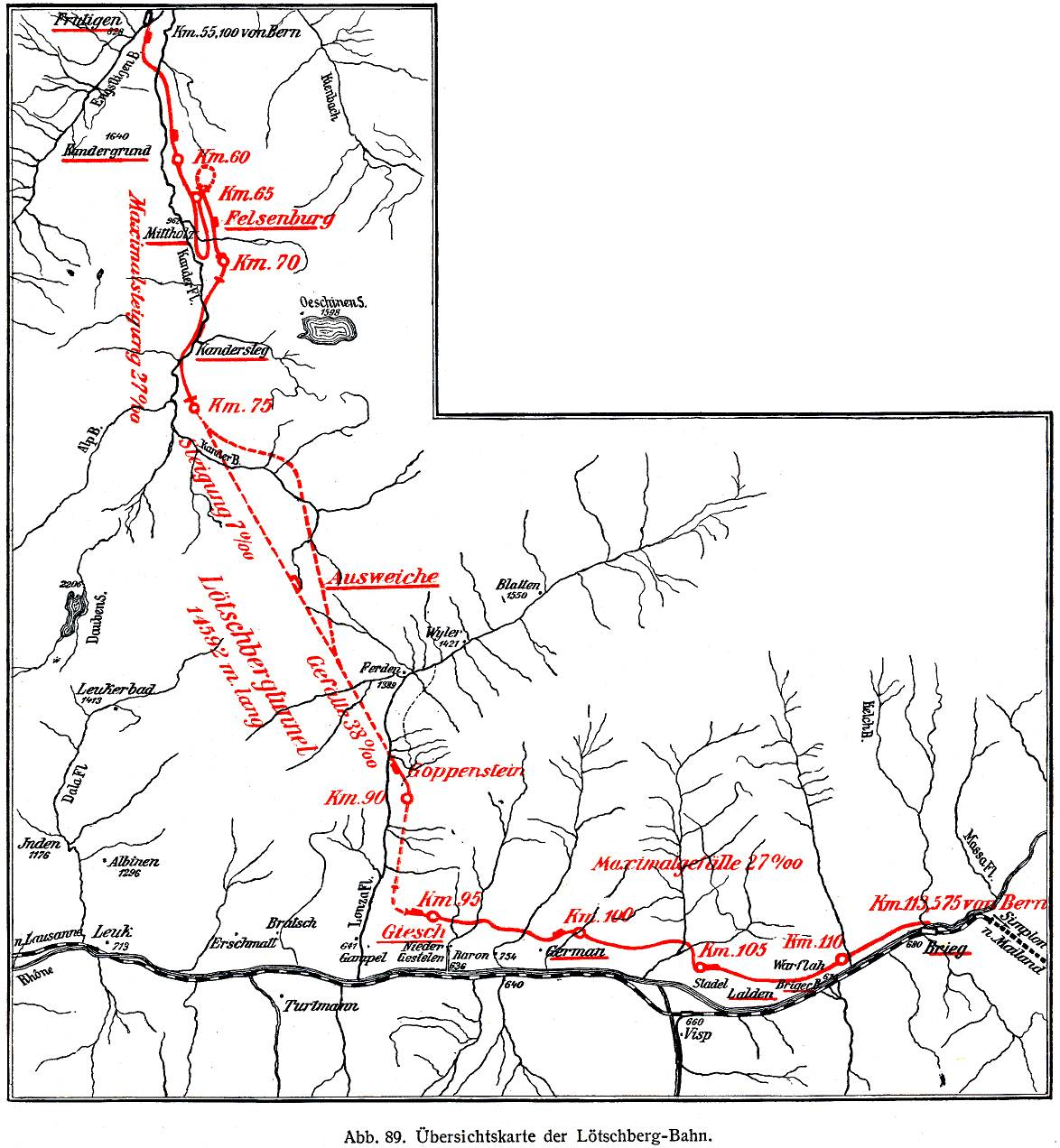 Outline map of the Lötschbergbahn between Spiez and Brig in Switzerland, showing the part from Frutigen to Brig. Note the long loop followed with a 270 degree spiral tunnel between Kandergrund and Felsenburg (ca. km 60 and 70) and the curved stretch of the Lötschberg tunnel between km 75 and 90. The straight version of the tunnel had to be abondoned when breaking into watercarrying sediment layers while advancing the tunnel underneath the Kander.